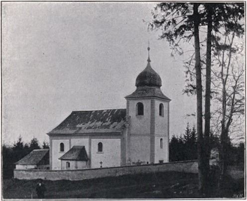 Church in Aldašín